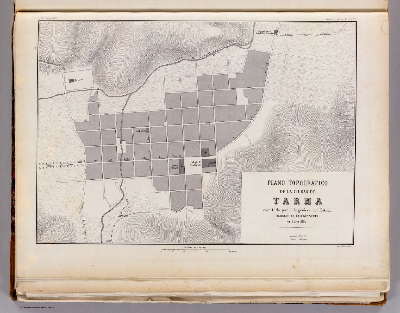 Historical map of Tarma, Junín, Peru.